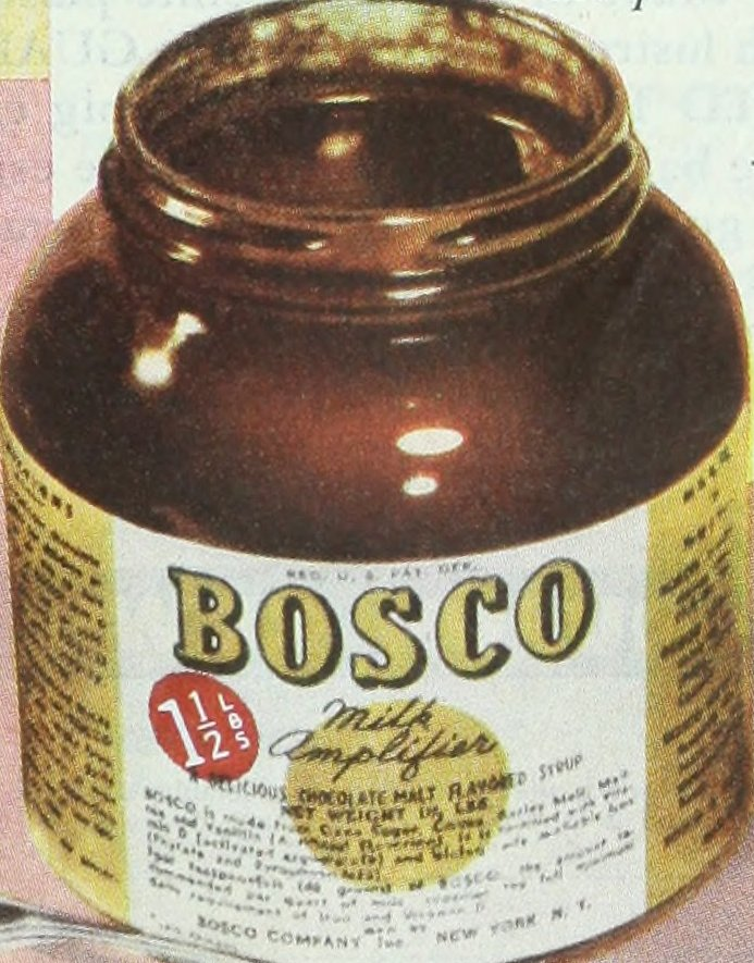 Bosco syrup image from Lady's Home Journal - Internet Archive